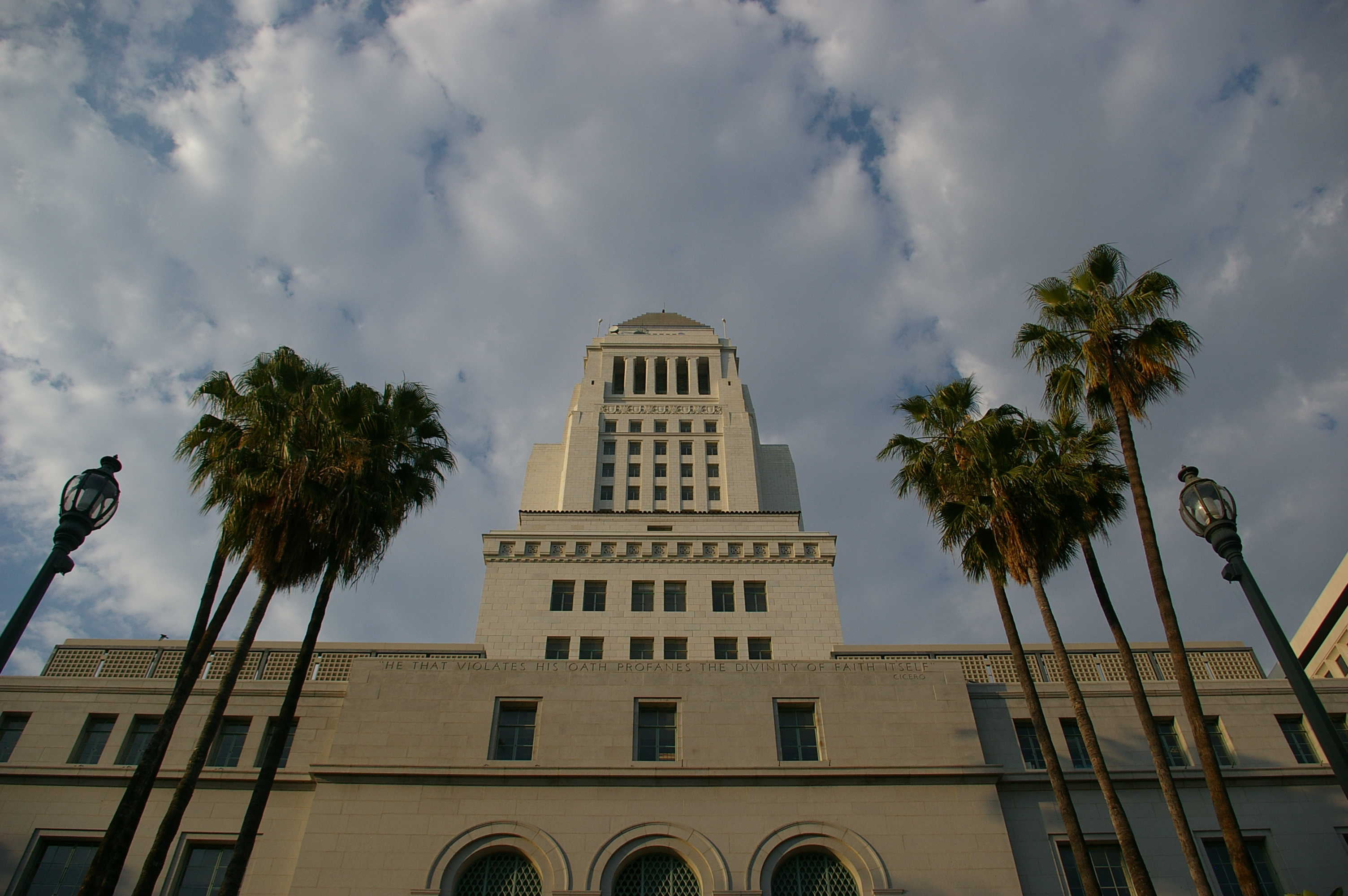 Photo of Los Angeles City Hall, with an engraved quotation from Cicero which reads, "He that violates his oath profanes the divinity of faith itself." Picture taken by me.